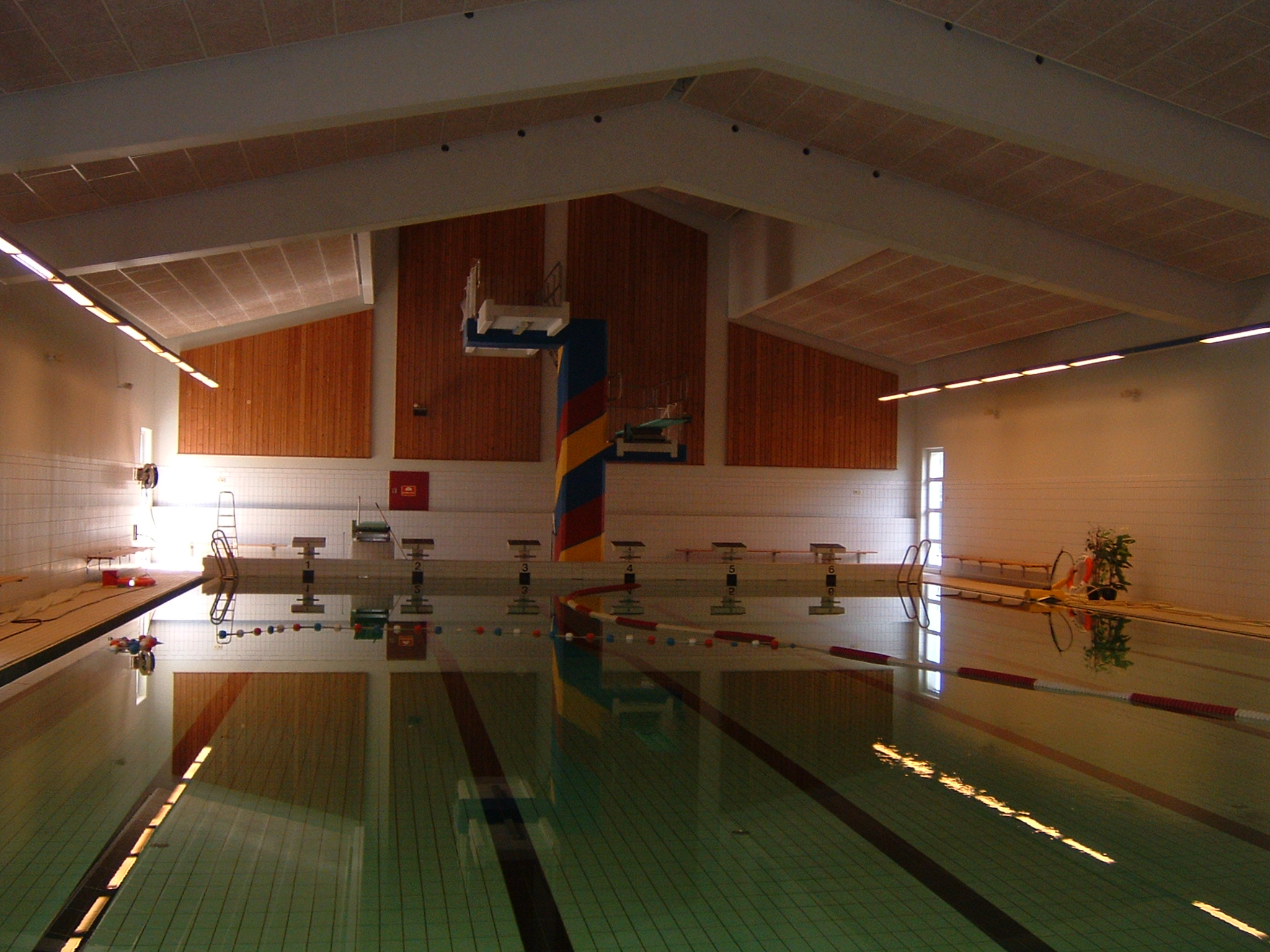 A picture from Forsand Kulturhus